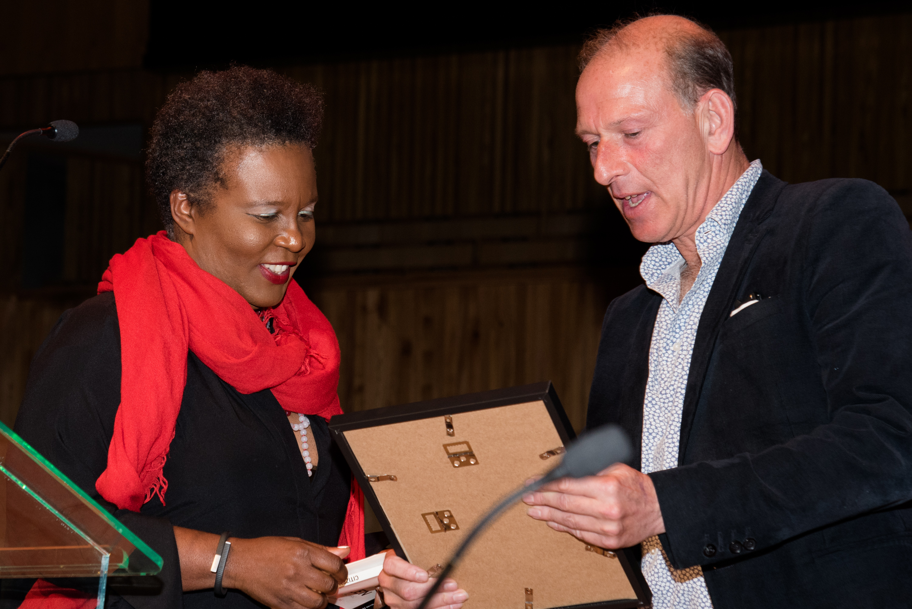 Claudia Rankine is awarded the Forward Prize for Best Collection 2015